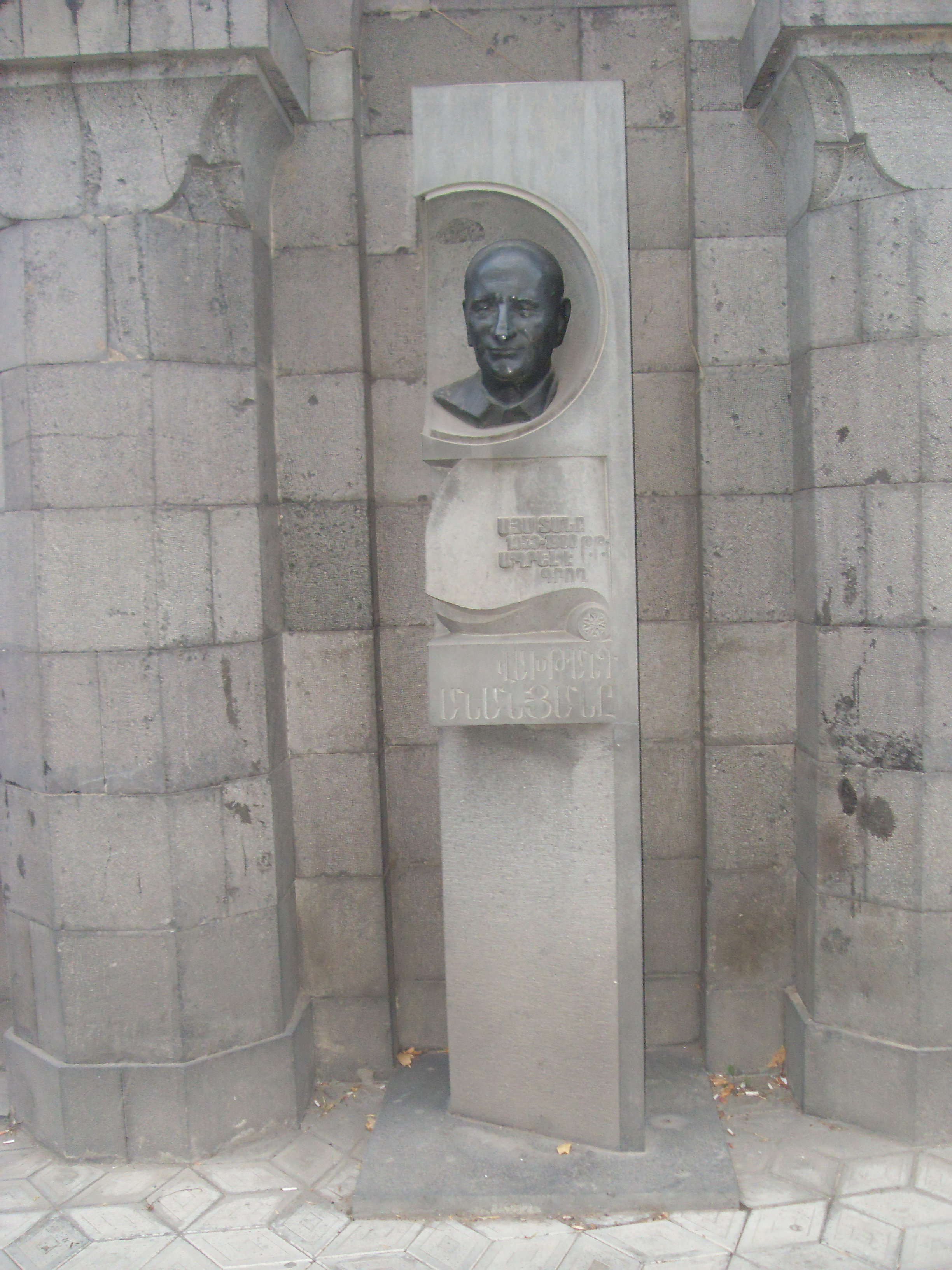 Vakhtang Ananyan, Yerevan, 1982 6/103